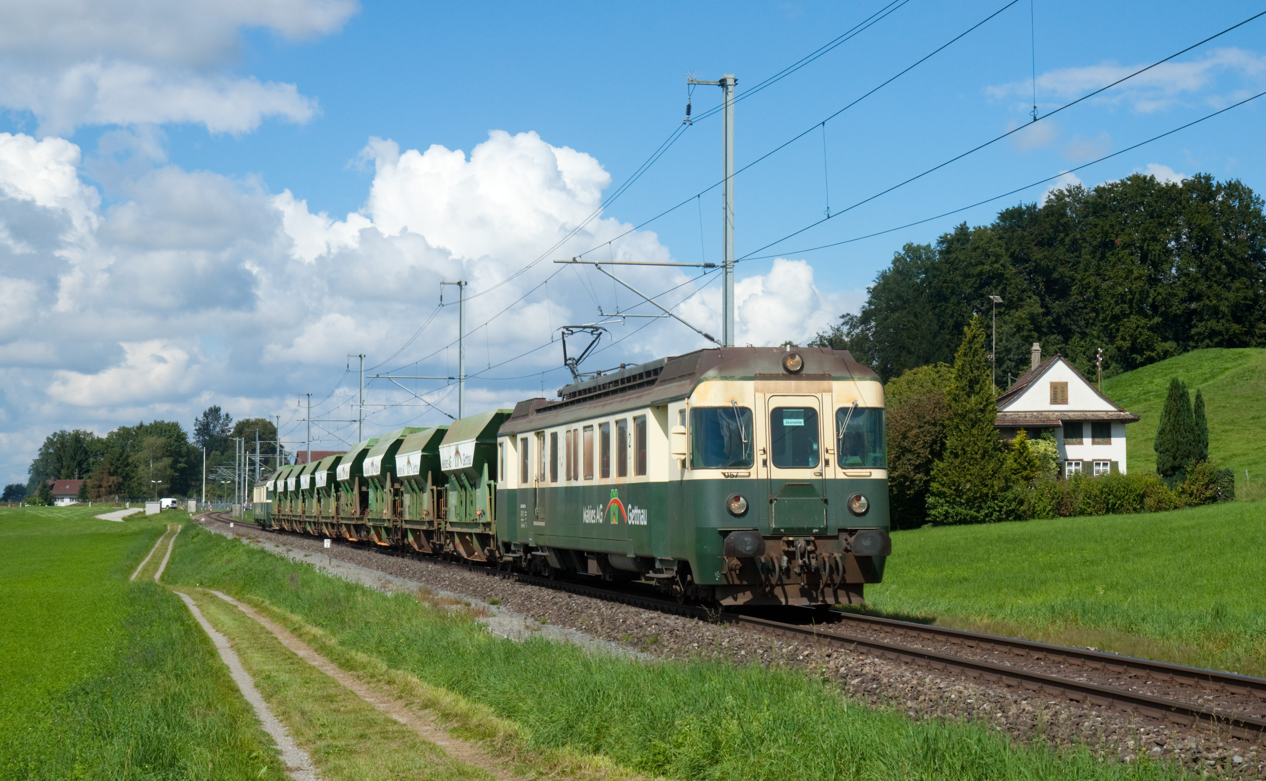 Push-pull train of Makies AG Gettnau. The train consists of two former Südostbahn BDe 4/4 multiple units (on this picture BDe 576 057 at the front and BDe 576 056 at the rear) and nine hopper cars (Falls-t type). The train can carry about 470 metric tons of gravel or sand. Along the hopper cars there is a cable connecting the two multiple units, allowing both units to be controlled by a single driver. The train is operated by SRT (Swiss Rail Traffic).